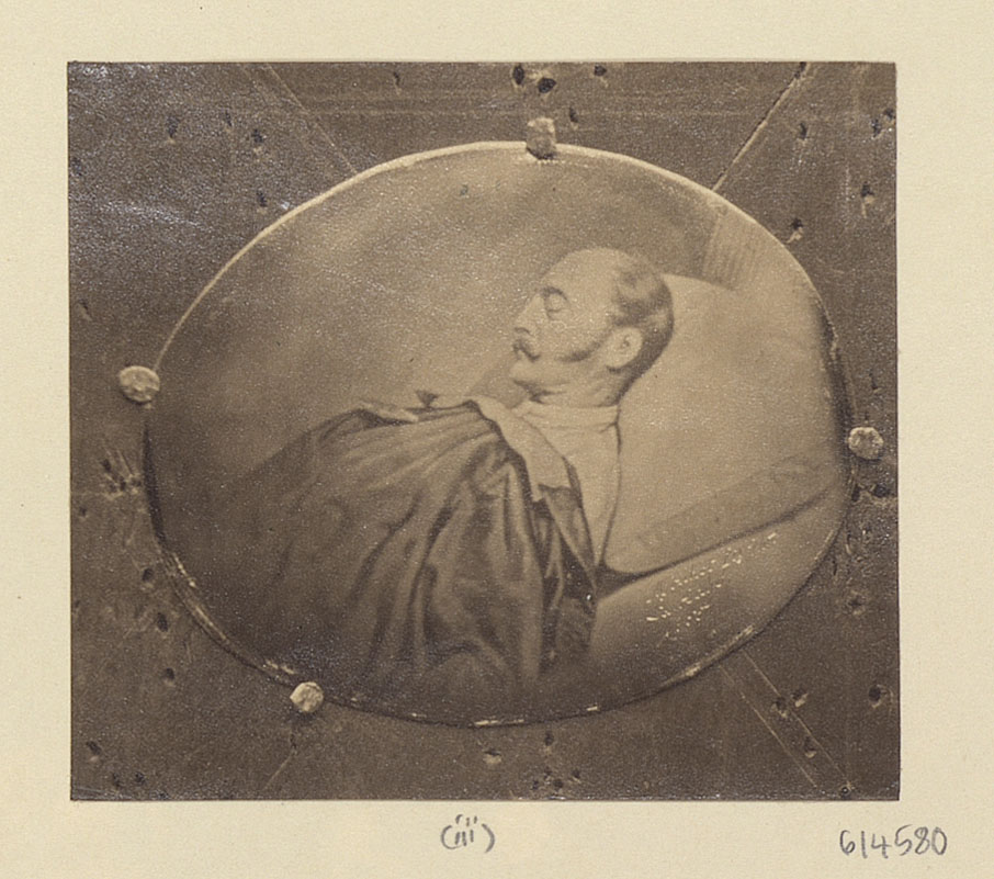 Daguerreotype of an oval miniature painting of Tsar Nicholas I (1796-1855) on his death bed.